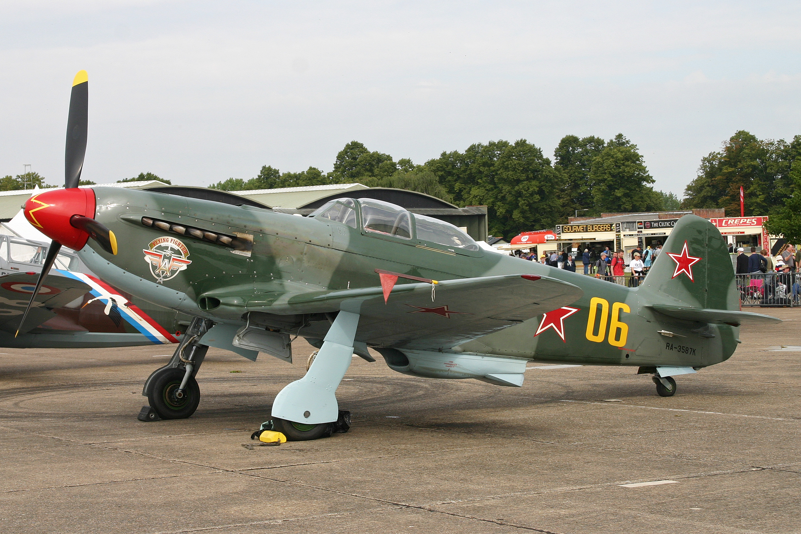 msn 0470406. Parked on paved flightline. Flying Legends 2011. Duxford, 10-7-2011